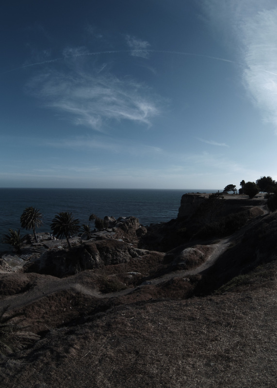 A Wide angle photo of Sunken City in San Pedro near Pt. Fermin.